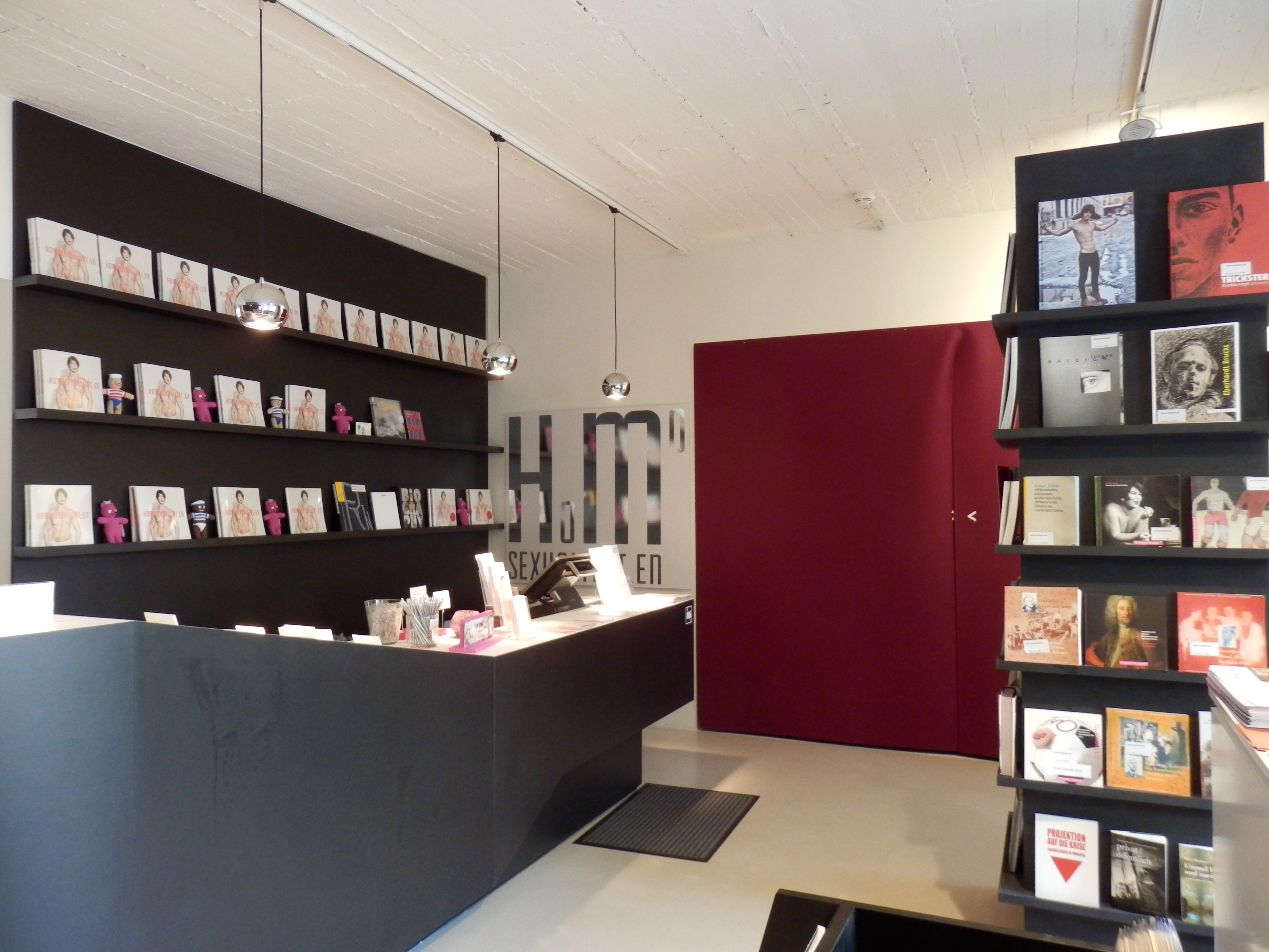 Museumsshop des Schwulen Museum* 2015